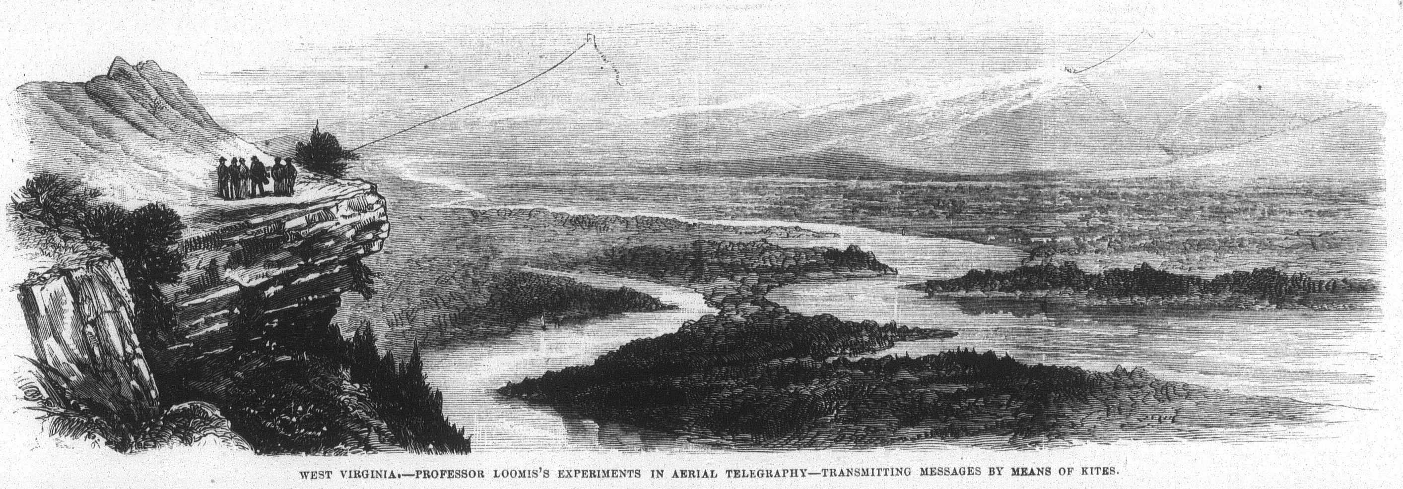 Illustration of how a recently reported demonstration of wireless telegraphy by Mahlon Loomis in the mountains of West Virginia might have appeared.